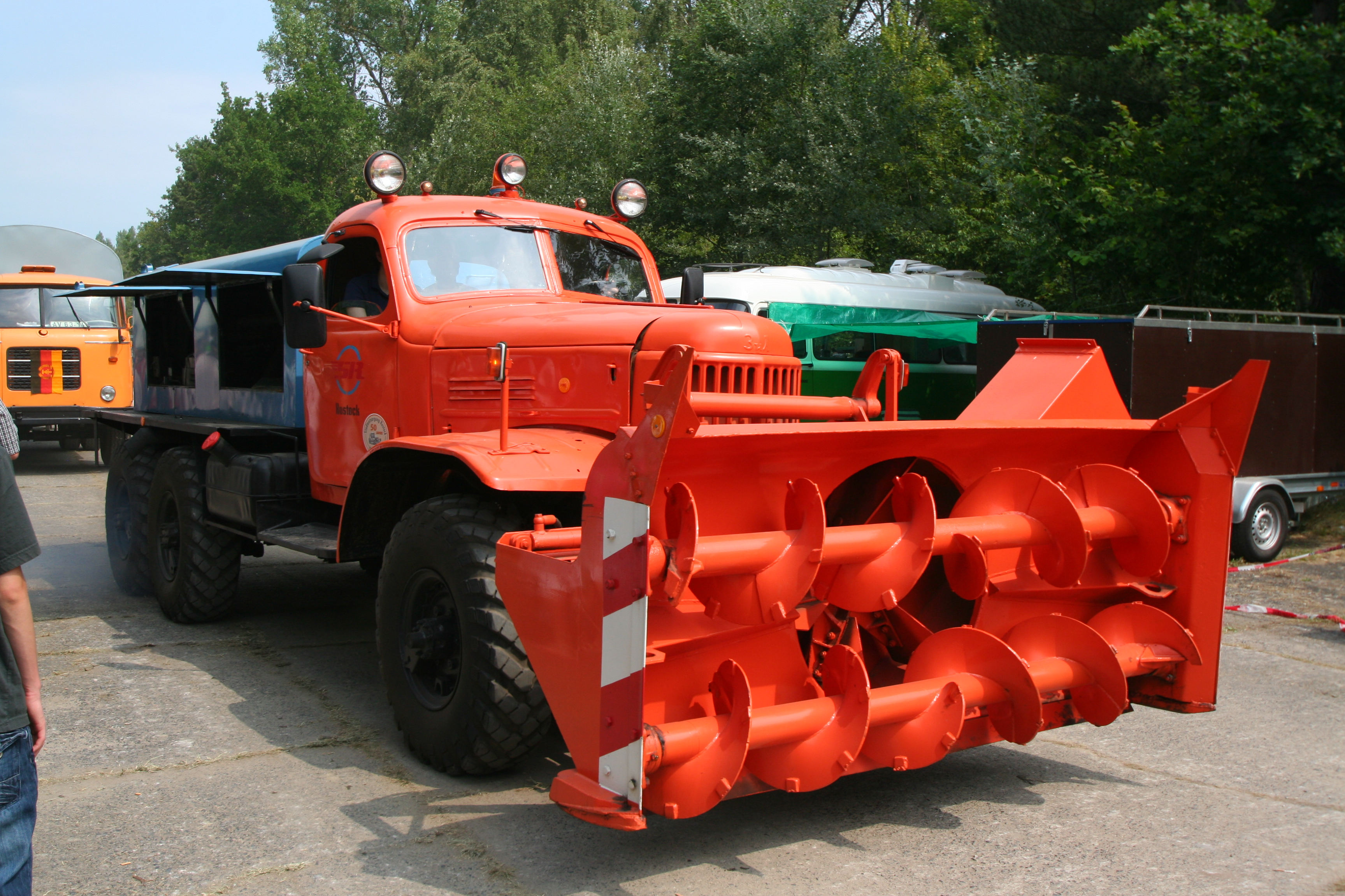 Die Schneefräse ZiL-157 D470 beim Ostblocktreffen Pütnitz 2010.